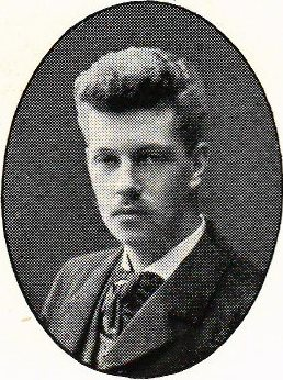 Jakob Mauritz Billström (1880-1953), Swedish psychiatrist and neurologist